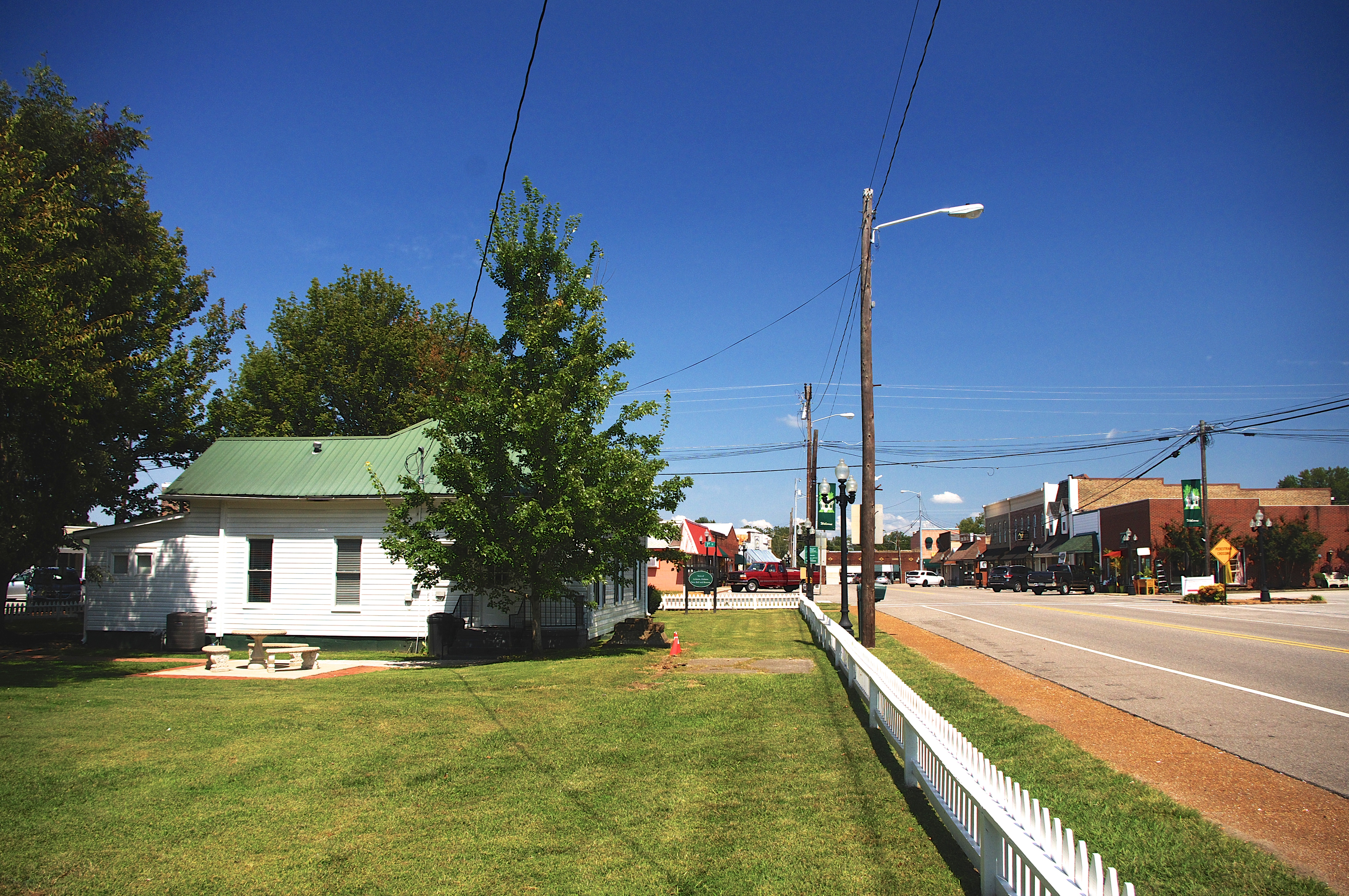 Town Hall (left) and Ardmore Avenue (Alabama State Route 53) in Ardmore, Alabama, United States.